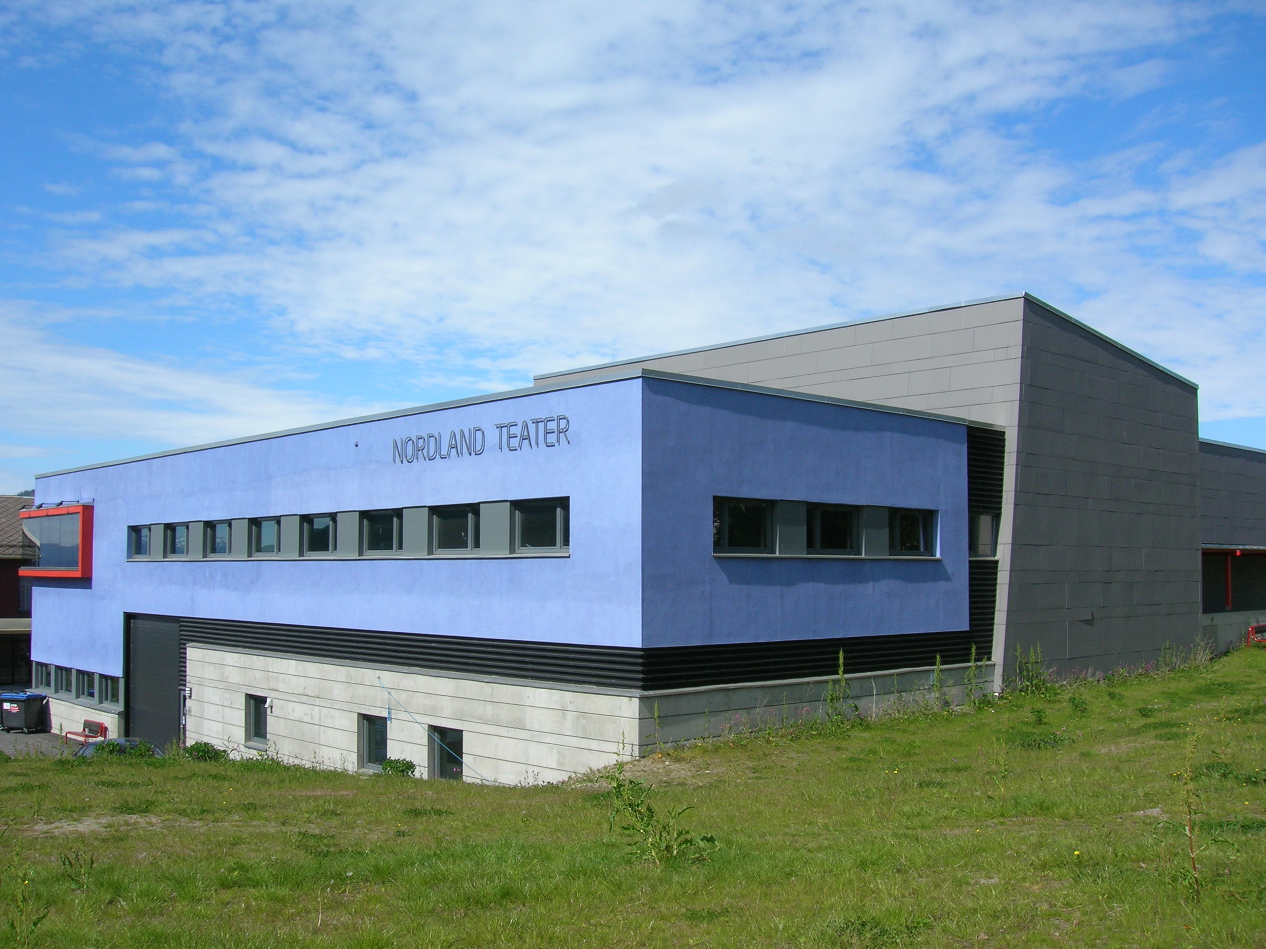 Nordland teater, Mo i Rana, Rana municipality, county of Nordland, Norway, Photo 10 June, 2007 with a Nikon Coolpix 5600 5,1 Megapixel camera.